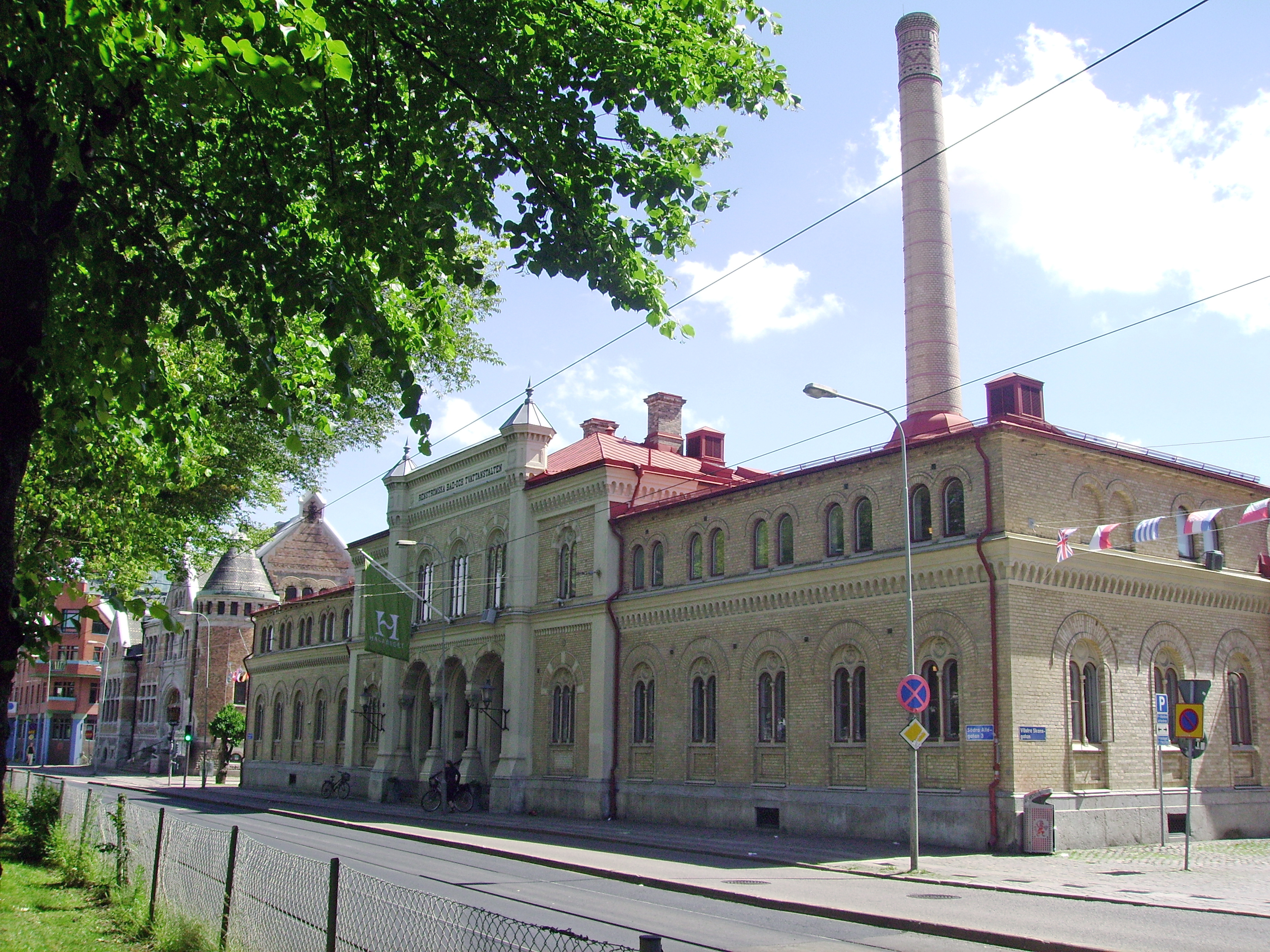 Picture of Hagabadet in Gothenburg